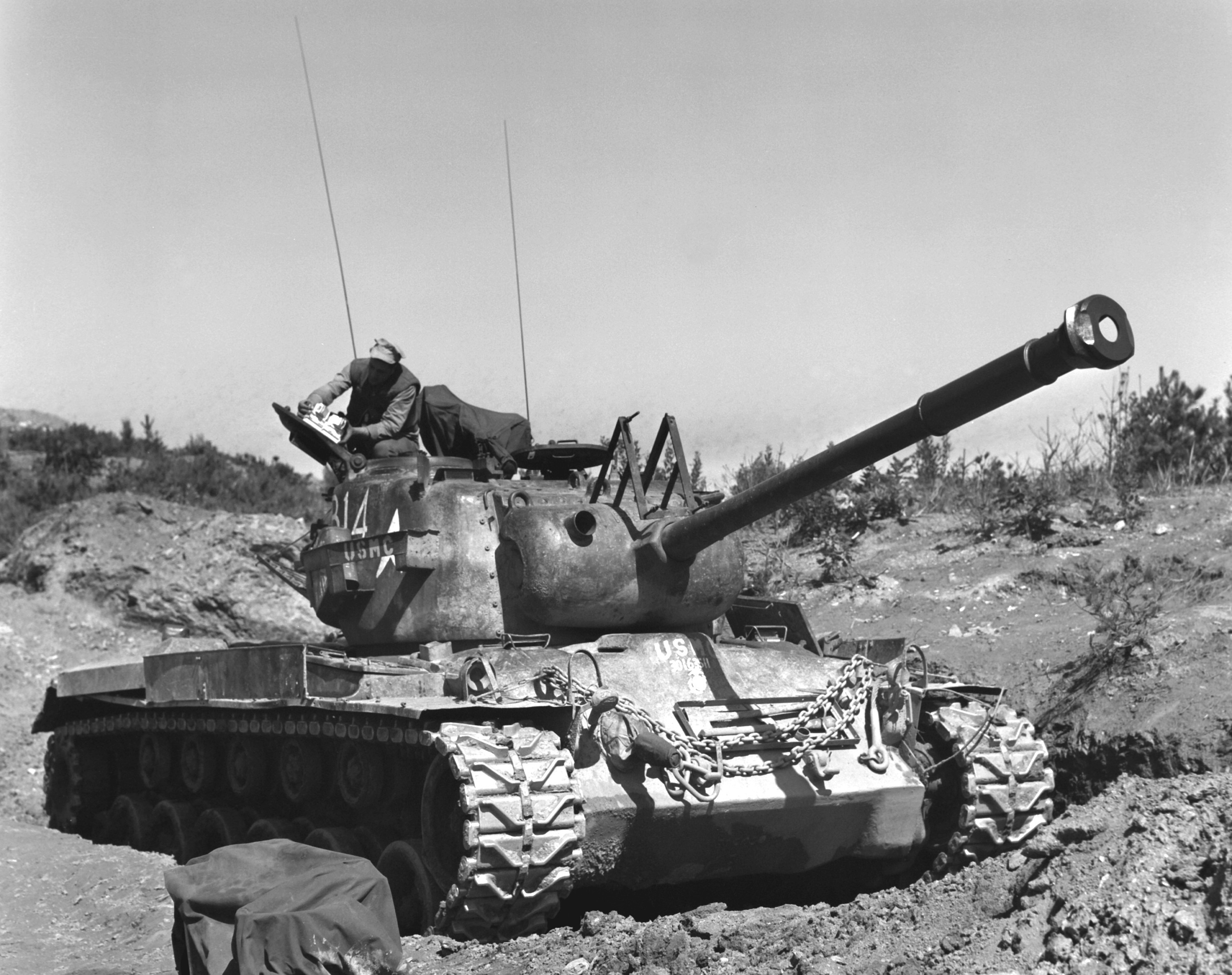 Operation / Series: KOREAN WAR FIRST MARINE TANKS BATTALION IN SUPPORT OF TURKISH BRIGADE - A 1st Marine Division tank crew member is careful not to let the hatch door slam against his tank, as he climbs out to inspect his tank after received three harmless 76 Howitzer hits. NARA FILE #: 127-GK-234D-A173204 Remark: Either M26A1 or M46. It seems there is a small additional idler between the last road wheel and the drive sprocket. If so, it's M46. REMARK: Interesting the right side of turret has the bracket on it. Have never seen that on M46. Remark: It's an M46, notice the pioneer rack on the glacis plate and the sprocket is mounted higher for the new transmission. All M46s were remanufactured M26s.